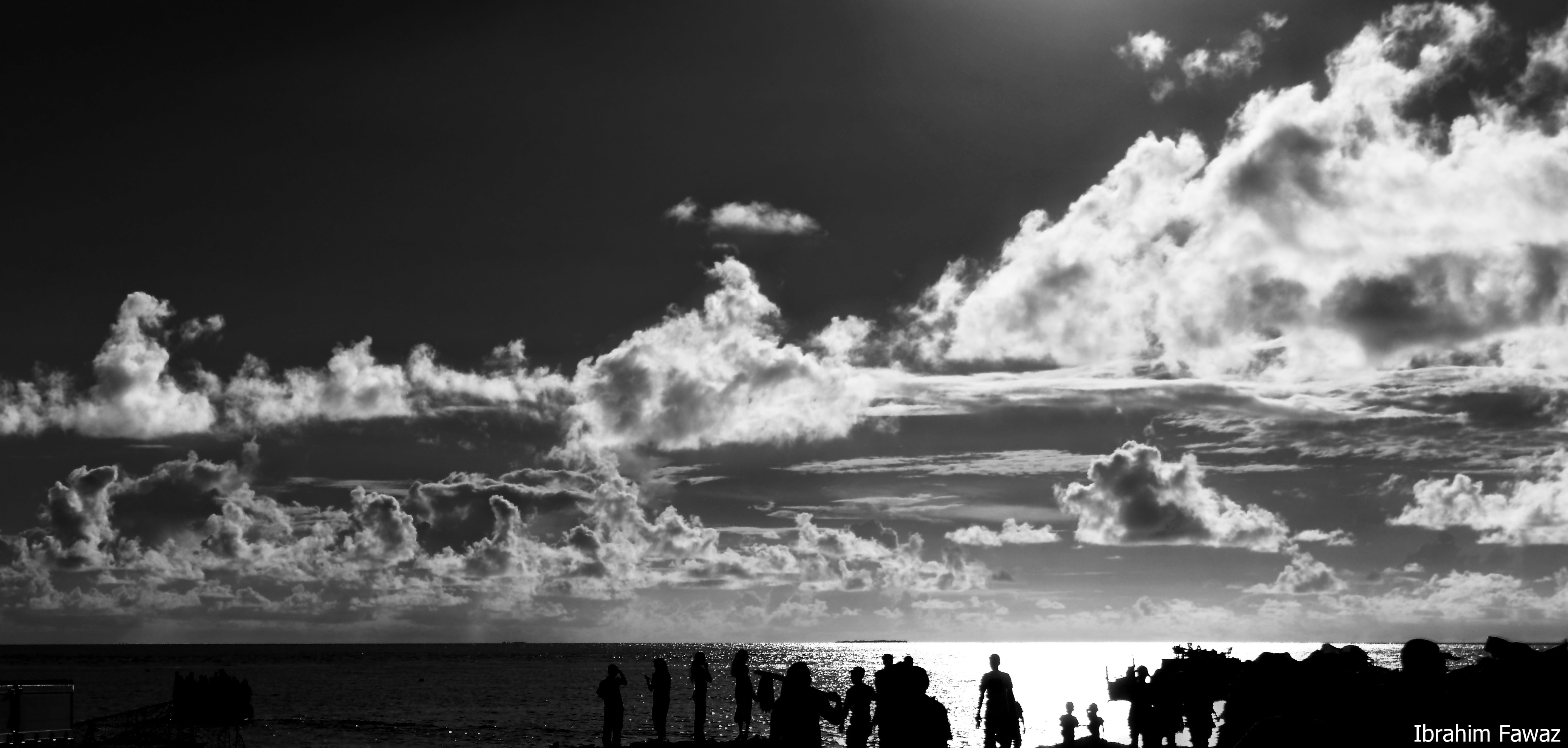 Raa Dhuvaafaru, as people moved into their new homes after the 2004 Tsunami